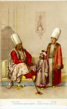 Official uniforms of the Ottomans, Giovanni Jean Brindesi series. Kızlarağası (Chief Black Eunuch), Cüce (Dwarf, Palace Jester), Ak Ağa (Chief White Eunuch)